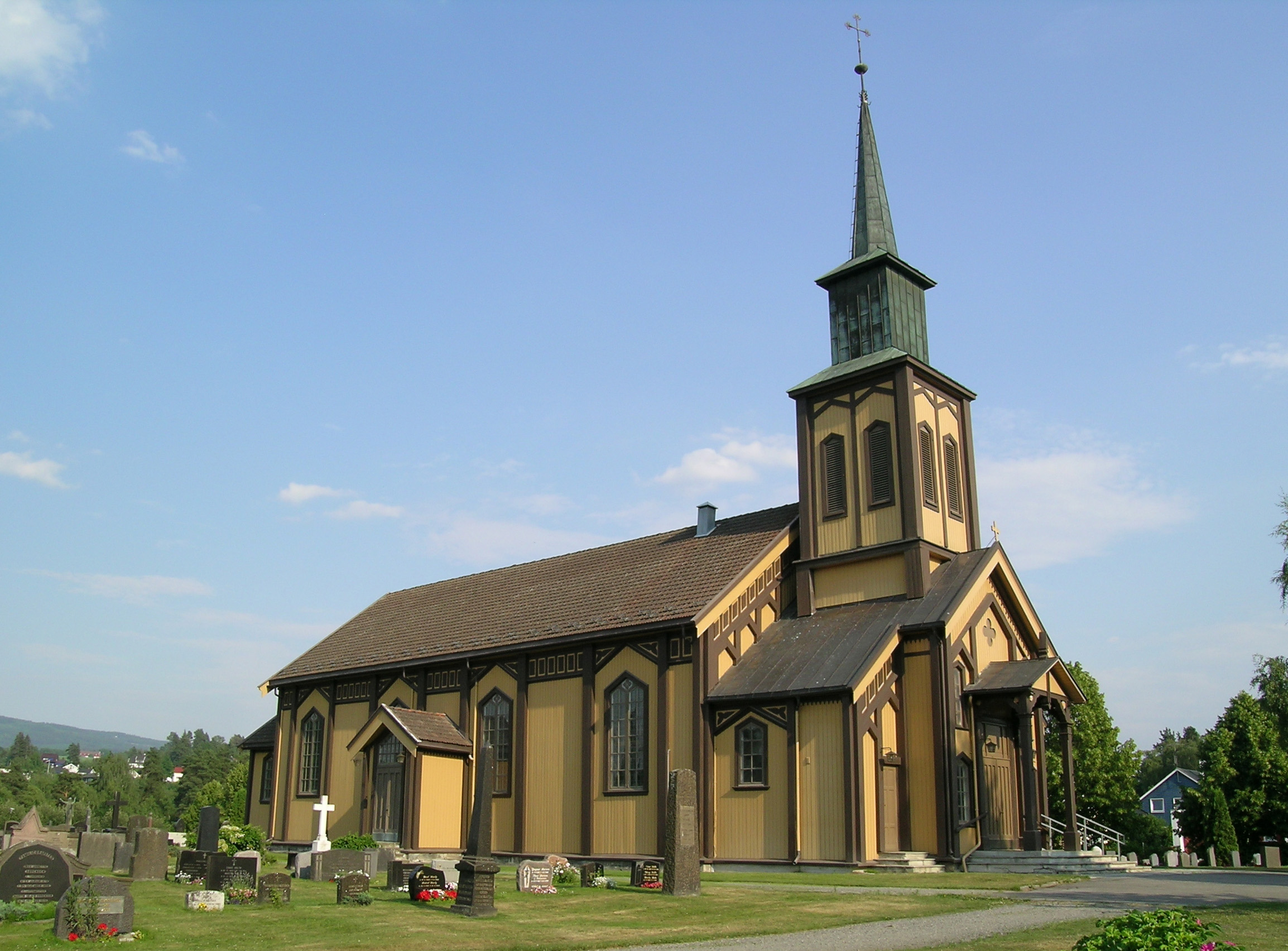 Hønefoss chrurch. Hønefoss, Norway.